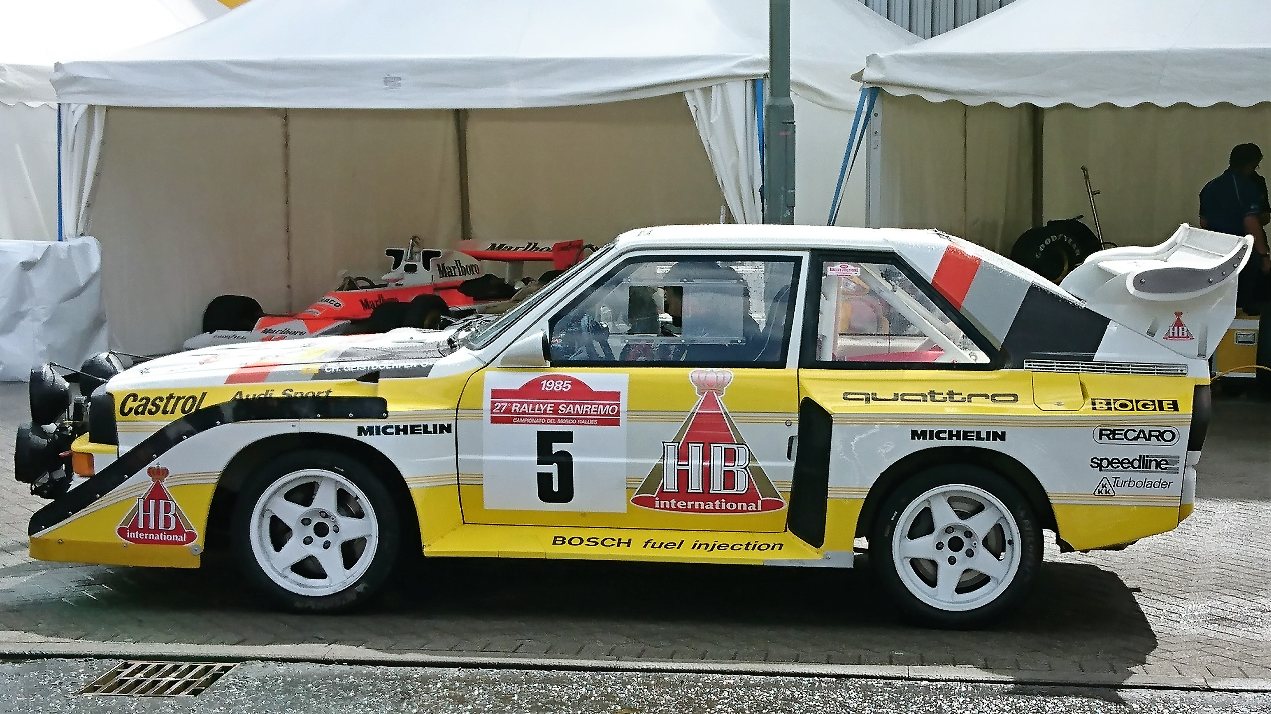 Walter Röhrl's Audi Sport Quattro S1 E2 from the 1985 World Rally Championship, pictured at the Ignition Festival of Motoring - held at the Scottish Event Campus - on 5 August 2017.